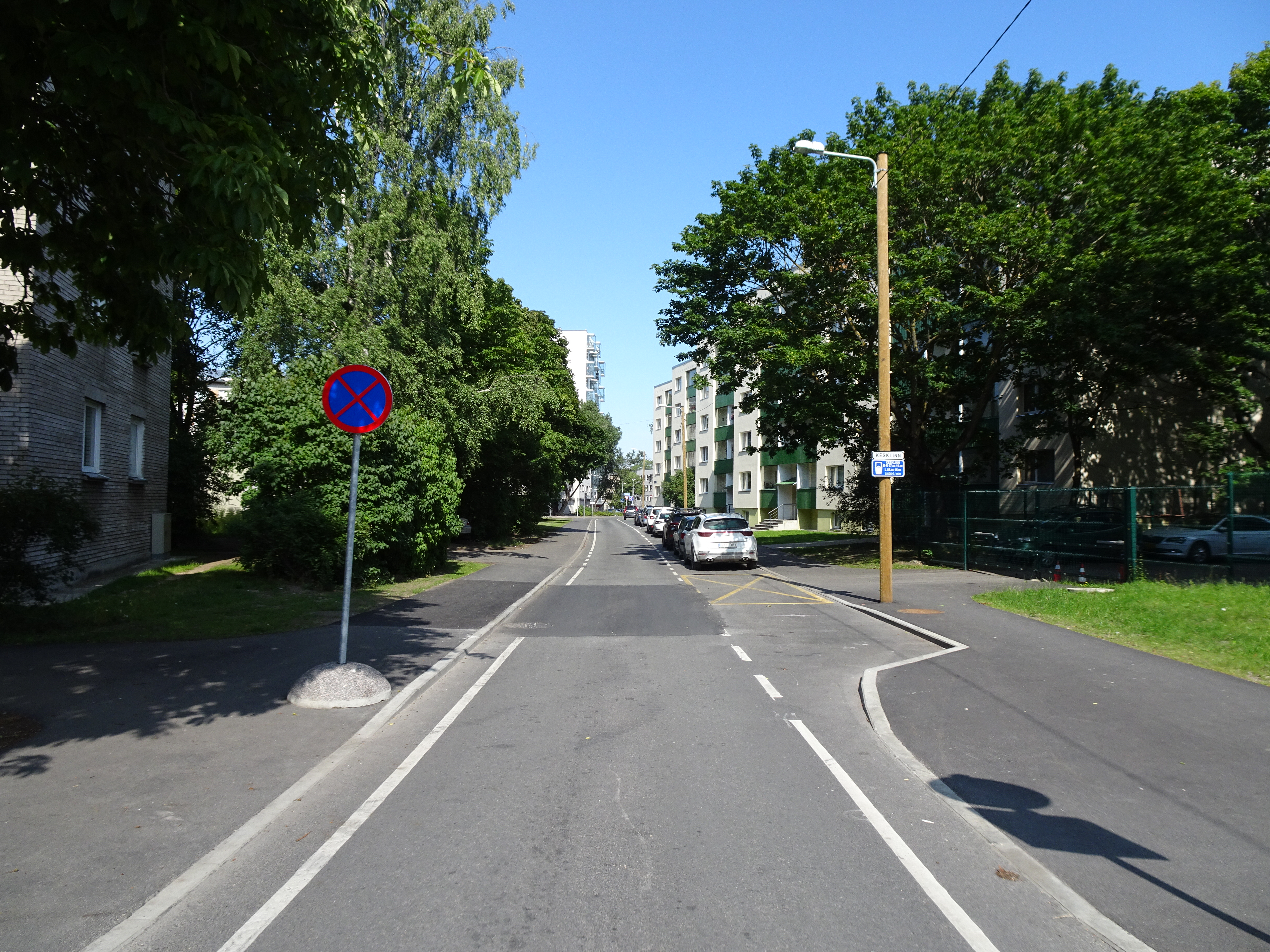 Gildi Street in Tallinn, Estonia